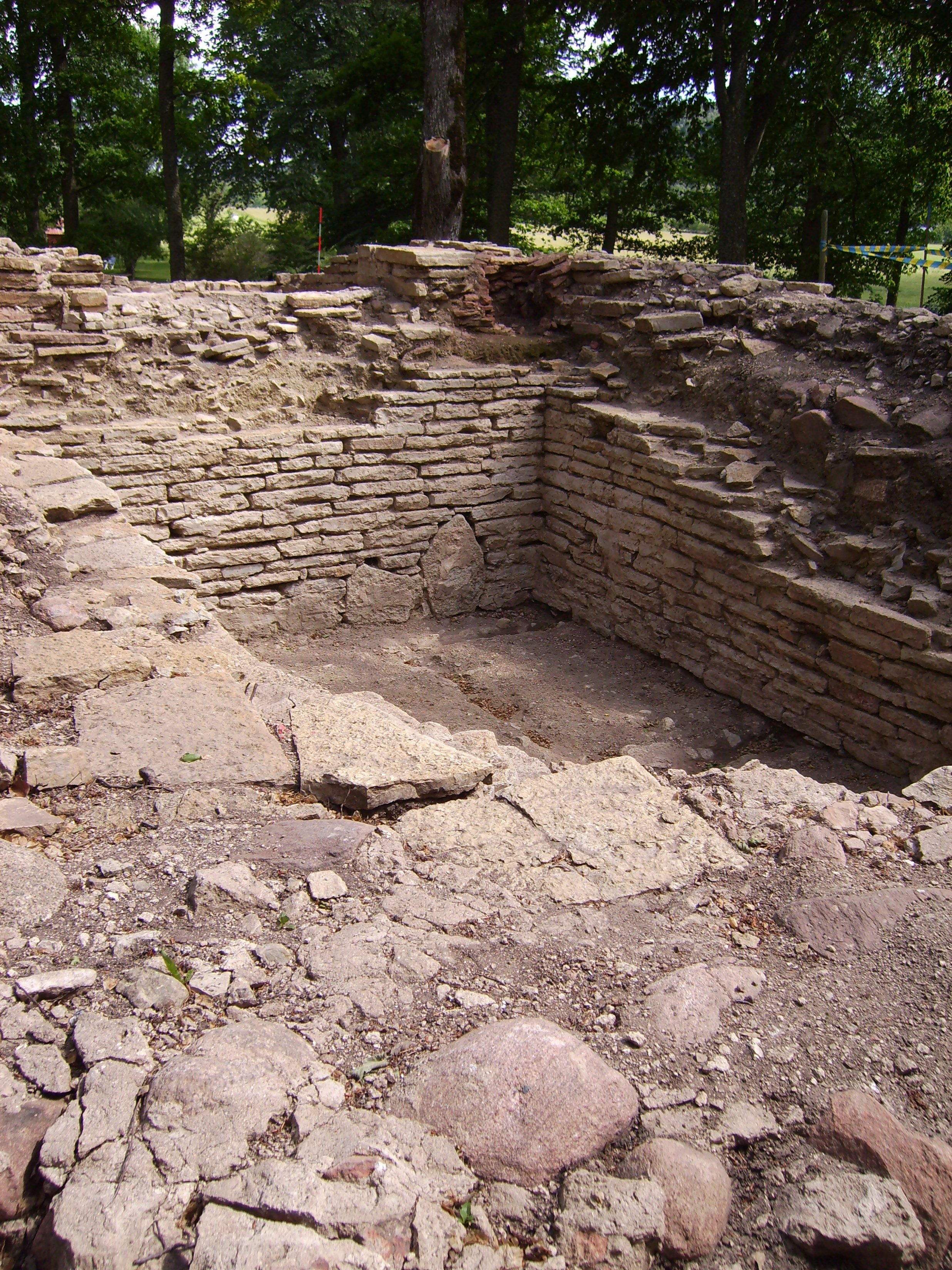 Some hundred years before the Varnhem monastery was built around 1150 by the Cistercians, the same place already brandished one of the oldest Christian churches in Sweden. During the year 2005 the Museum of Västergötland started an excavation of this old stone church (estimated to be from around 1020-1040) and found indications of a wood chapel standing there before. More than 1000 skeletons were found. Surrounding the oldest church, women and children graves were found on the north side while men on the south, but later the graves were placed on the south side only, the richest people however closest to the church. Around this old church ruin there are Iron Age burial mounds and indications of some kind of village. A silver hord has been found in the same area. Pictures are from the excavation, summer of 2007.